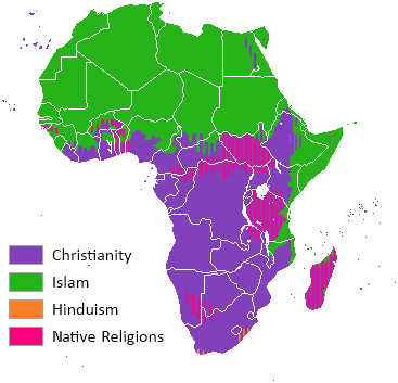 A map of the Africa, showing the major religions distributed as of today. Map shows only the religion as a whole excluding denominations or sects of the religions, and is colored by how the religions are distributed not by main religion of country etc.